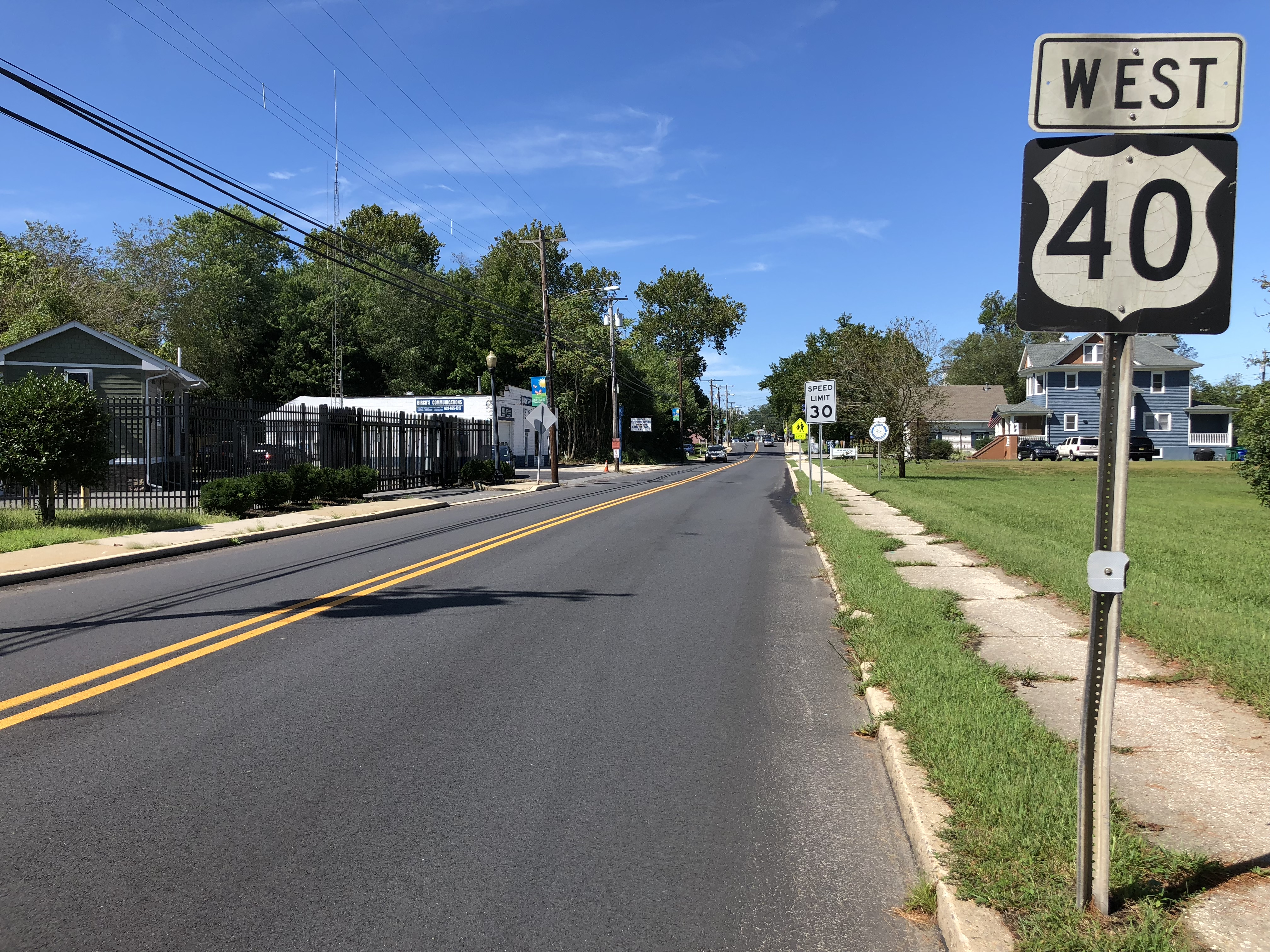 View west along U.S. Route 40 and north along Atlantic County Route 559 (Main Street) just northwest of Atlantic County Route 617 (Somers Point-Mays Landing Road) in Hamilton Township, Atlantic County, New Jersey